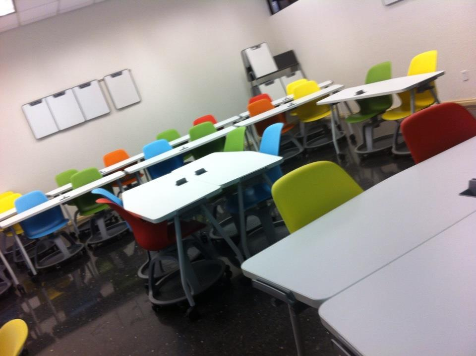 Innovate Classroom in ITESM Mexico City Campus